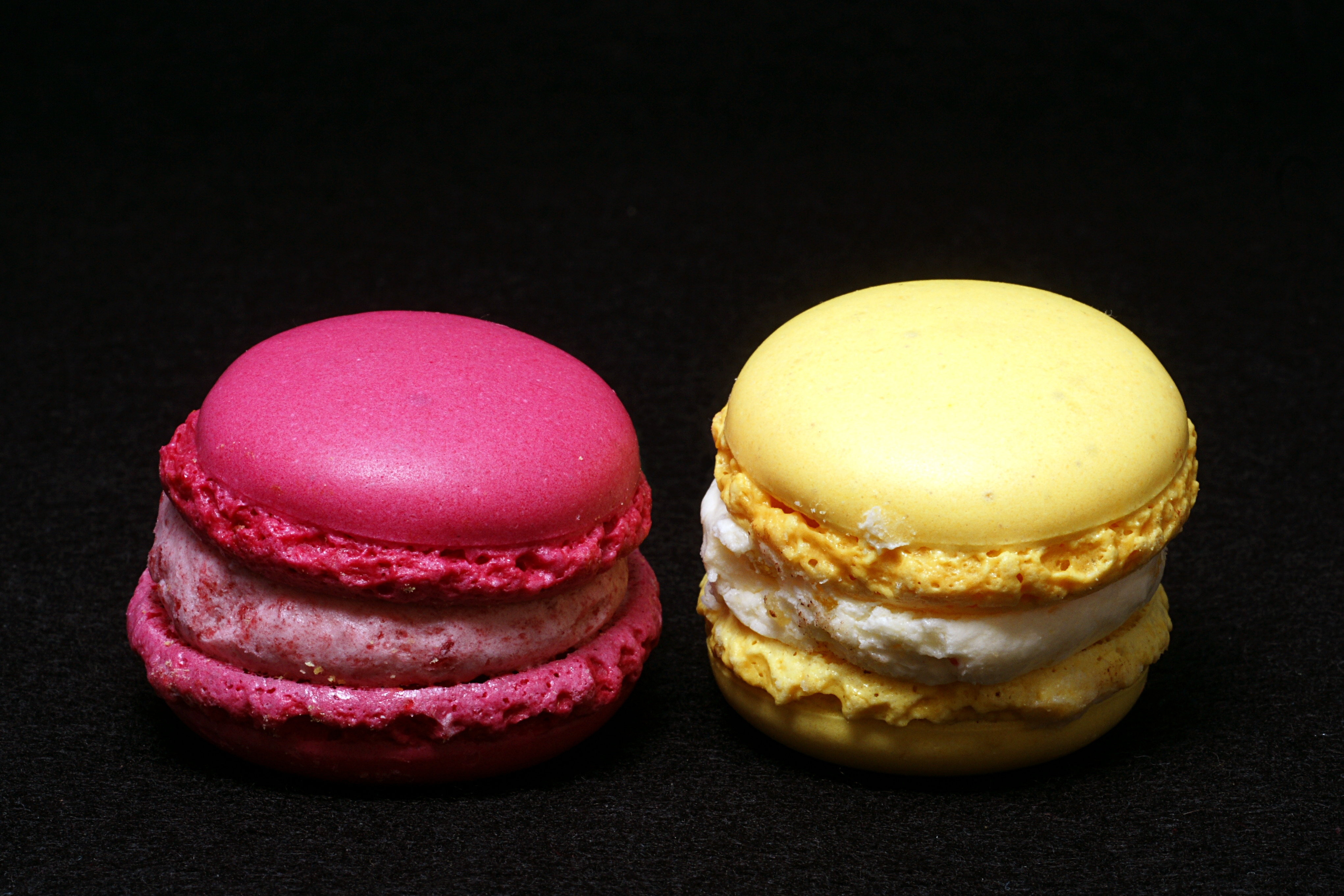 Two Luxemburgerli: raspberry and lemon.